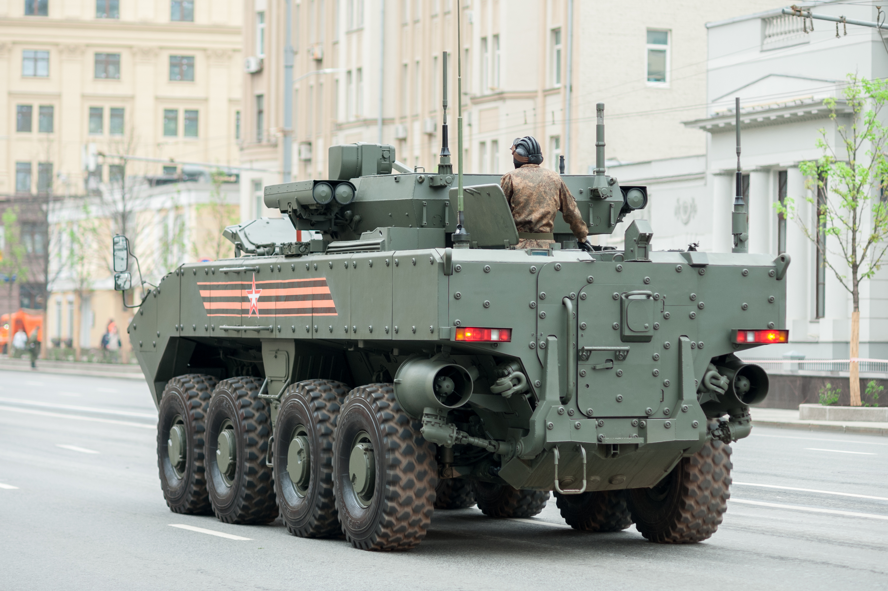 Rehearsal of parade in Moscow 2018